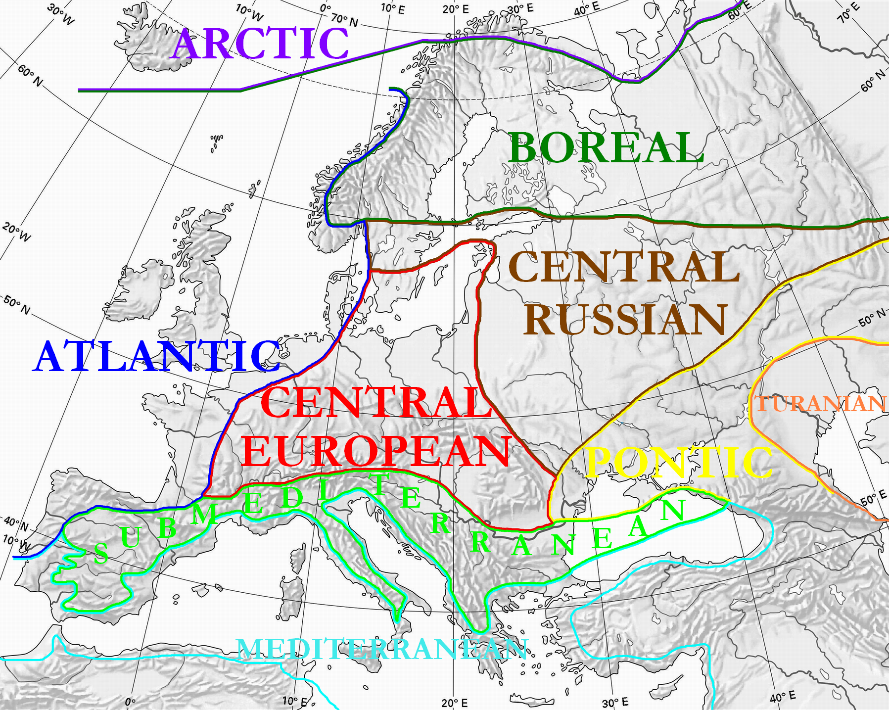 Floristic regions in Europe and western Siberia, according to Wolfgang Frey and Rainer Lösch The central european region and the central russian region are sister regions. The border between them is similar to the Fagus sylvatica limit (January, day-time temperature average: above -2°C). The border between the central russian region and the boreal region is similar to the Quercus spp. limit (Day-time temperature average: above 10°C, 4 months per year). The border between the boreal region and the arctic region is similar to the tree line, taiga/ arctic tundra limit (July, day-time temperature average: above 10°C). The border of the atlantic region is the limit of no frost (average), Gulf Stream influence. The warm islands in the Atlantic ocean are in the macaronesia region: isolated populations in a more humid environment. The mediterranean region is similar to the occurrence of wild Olea europea and wild Cistus salviifolius (Olea europea is grown very North in Italy). The border between the submediterranean region and the central european region is similar to the alpine arc (upper Rhone, upper Rhine, lower Danube), a weather barrier. The pontic region border is similar to the tree line/ steppe limit (less than 450 mm precipitation per year). The turanian region has a semi-arid climate. References: Frey W, Lösch R (2004) Lehrbuch der Geobotanik. Elsevier, Spektrum; München, Heidelberg; ISBN 3-8274-1193-9 (graphic modified from Walter H (1954) Grundlagen der Pflanzenverbreitung. Einführung in die Pflanzengeographie, II. Teil: Arealkunde. Ulmer, Stuttgart-Ludwigsburg) Frey W, Lösch R (2010) Geobotanik: Pflanzen und Vegetation in Raum und Zeit. 3 ed, Spektrum, Heidelberg, ISBN 978-3-8274-2335-1